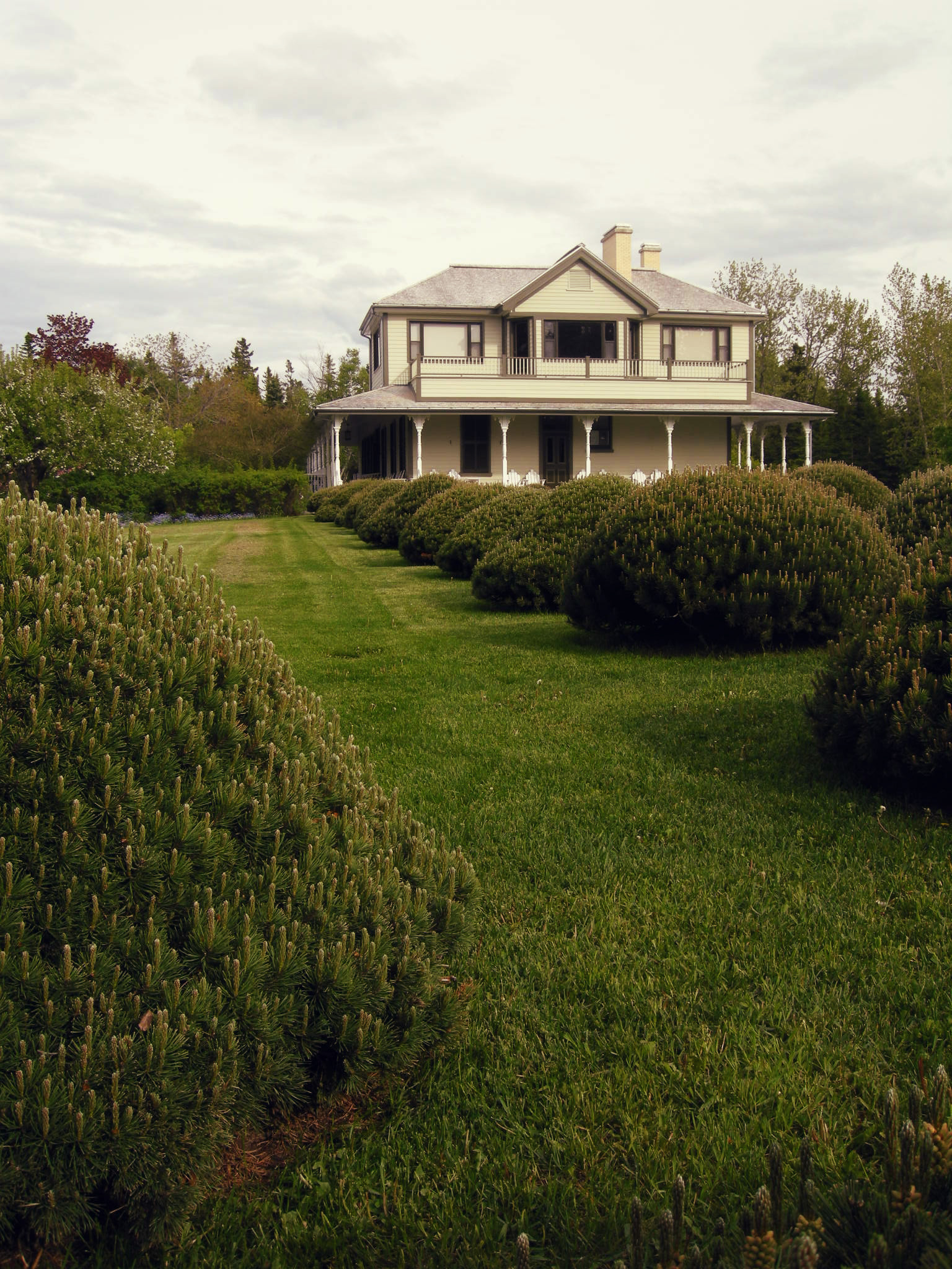 Estevan Lodge: A Historic House at the heart of the Reford Gardens